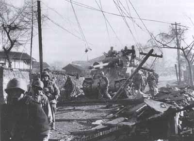 U.S. soldiers with tank make their way through the rubble-strewn streets of Hyesanjin in November 1950.